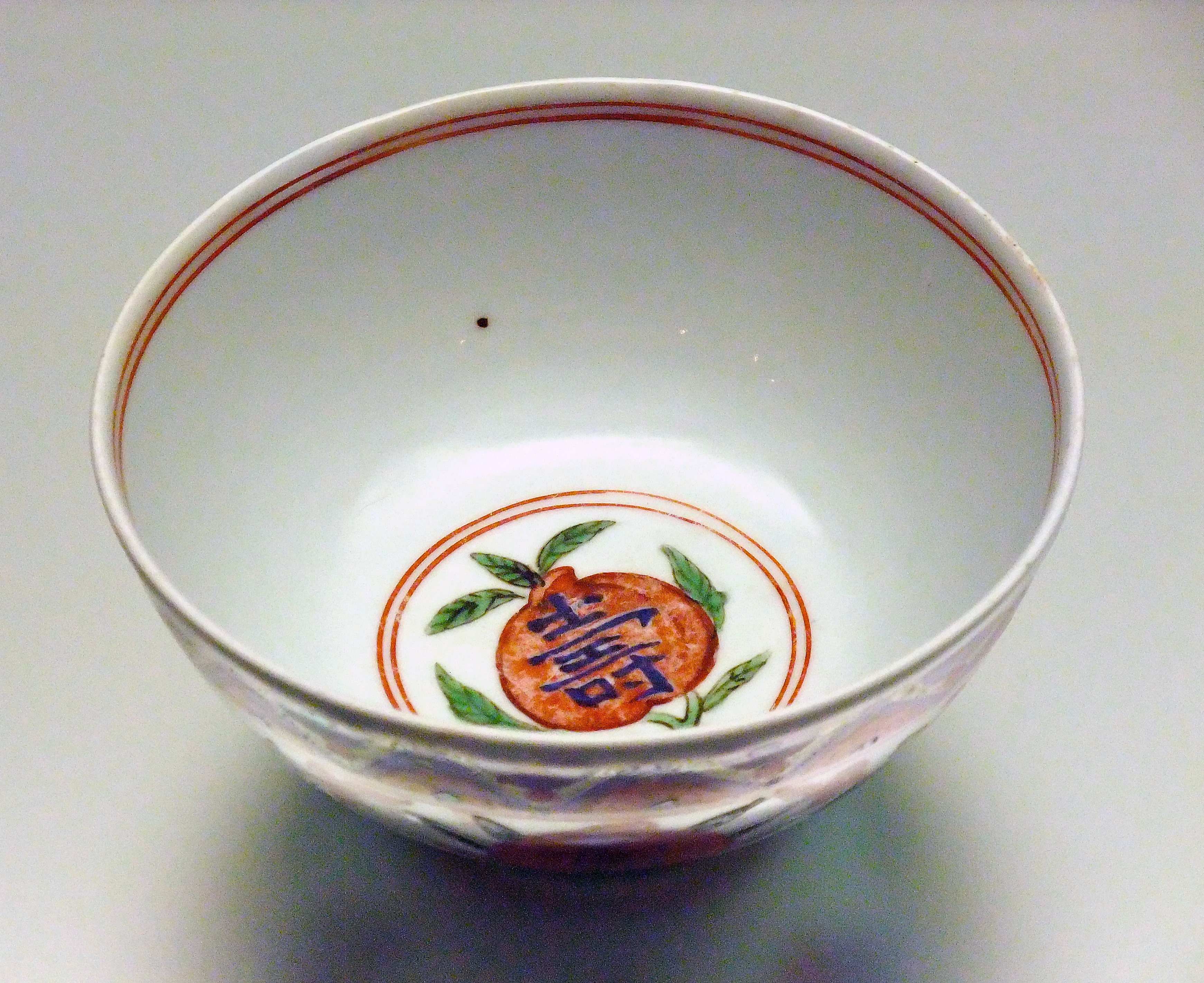 The Chinese character for longevity (shou) within another longevity symbol, a peach decorate this small porcelain bowl.